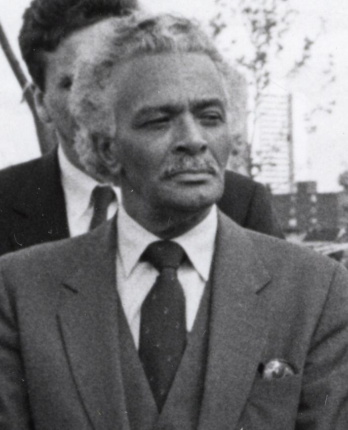 State Senator Royal L. Bolling - cropped from photo with Evelyn Murphy, Governor Michael Dukakis, Mayor Raymond L. Flynn, and others.